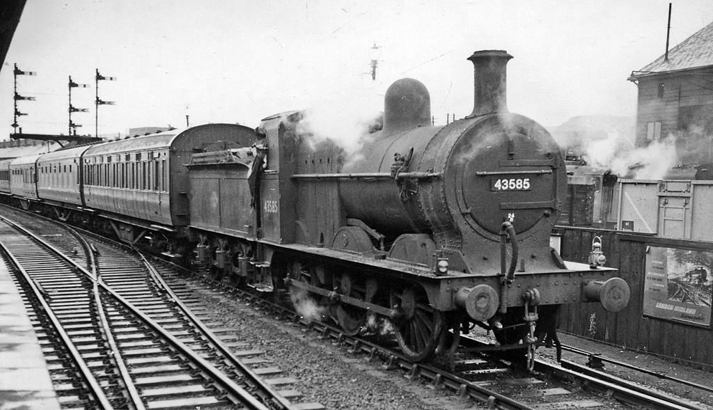 Midland 0-6-0 shunting carriages at Hellifield. View SE, towards Skipton on the ex-Midland Leeds/Bradford - Skipton - Hellifield - Morecambe/Carlisle main lines, also towards Blackburn on the ex-Lancashire & Yorkshire line from Manchester and Preston